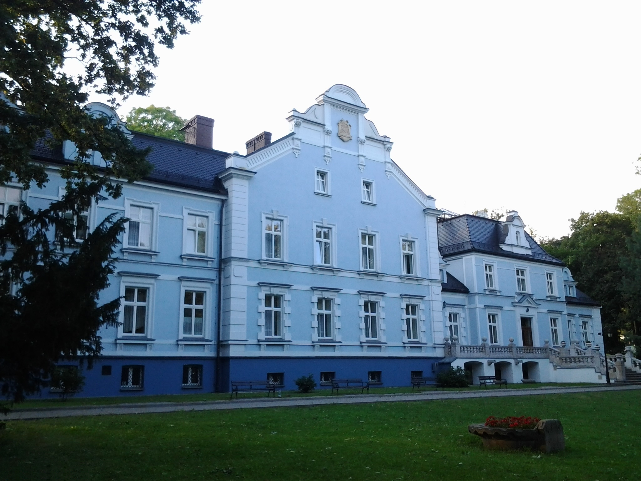 Palace in Wodzislaw Slaski - Kokoszyce. Today "Retreat House"